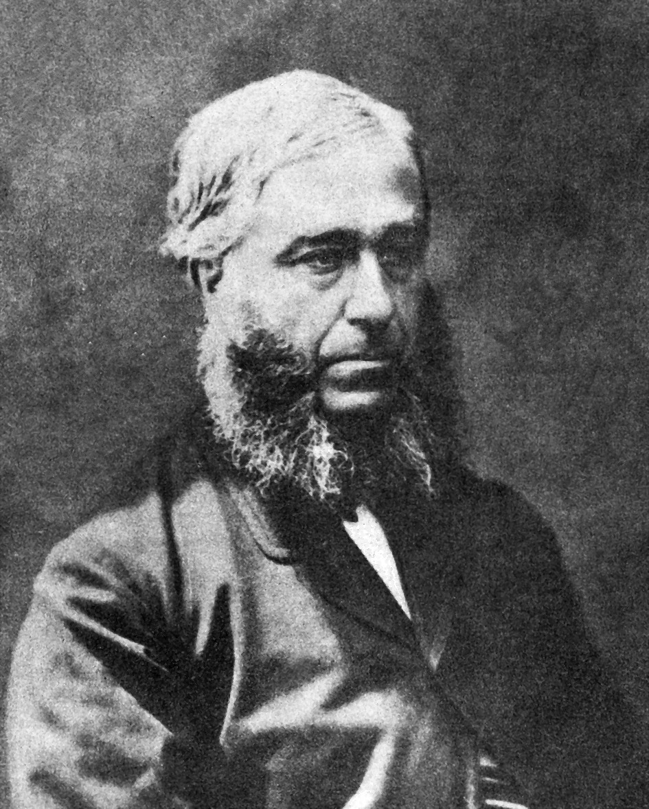 William Budd, Published for Delta Omega by the American Public Health Association, New York : 1931.